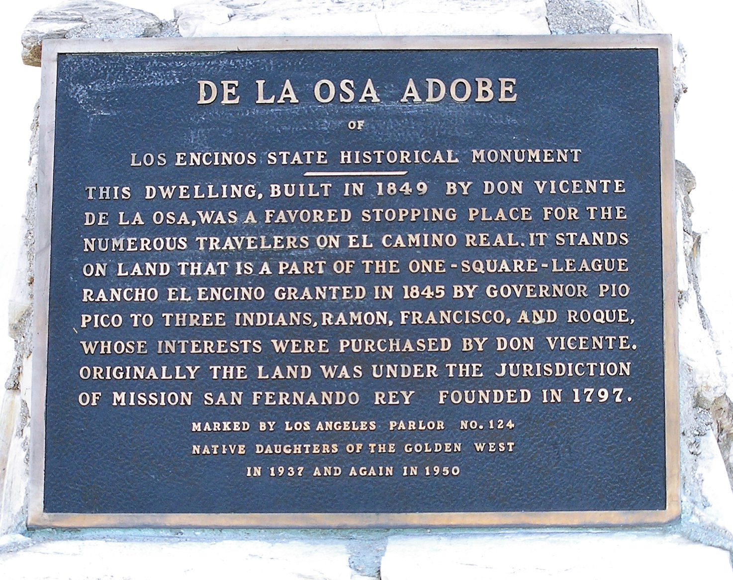 Historic marker on the De la Osa adobe farmhouse at Los Encinos State Historic Park at the Rancho Los Encinos, Encino, Los Angeles, California